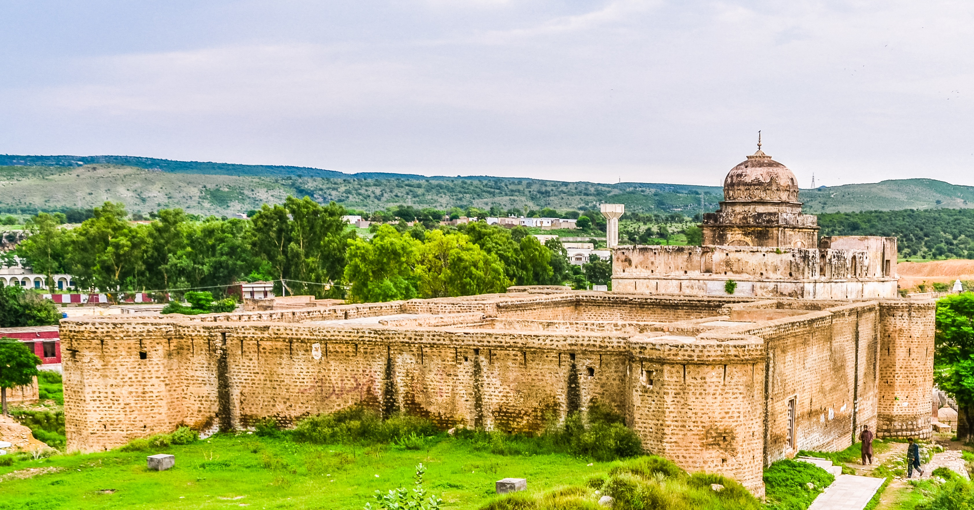 Ruined Buddhist Stupa and area around it This is a photo of a monument in Pakistan identified as the PB-37